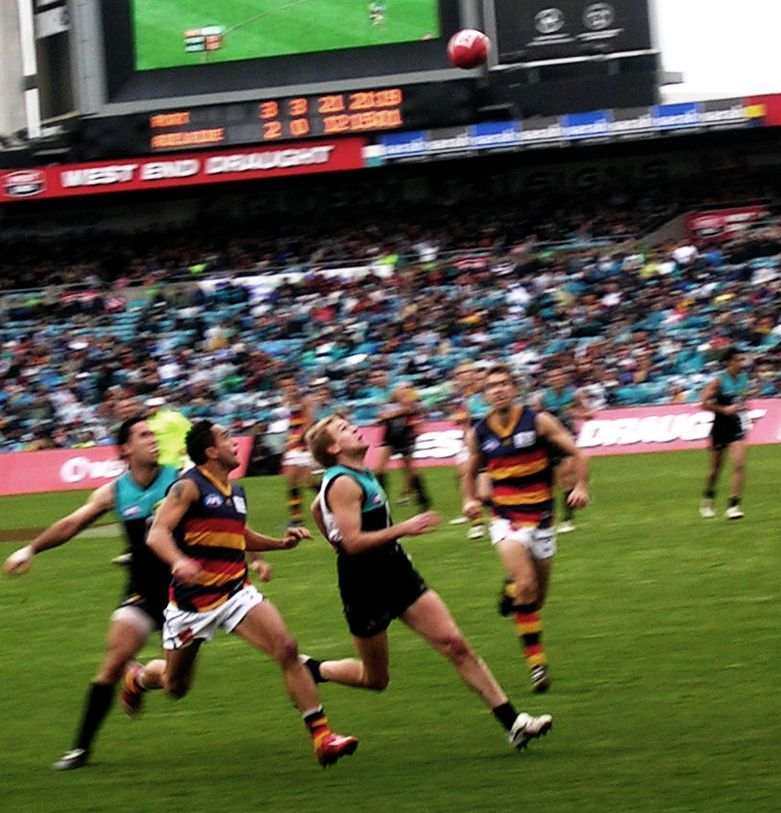 Adelaide's Andrew McLeod challenges a mark in a game against Port Adelaide